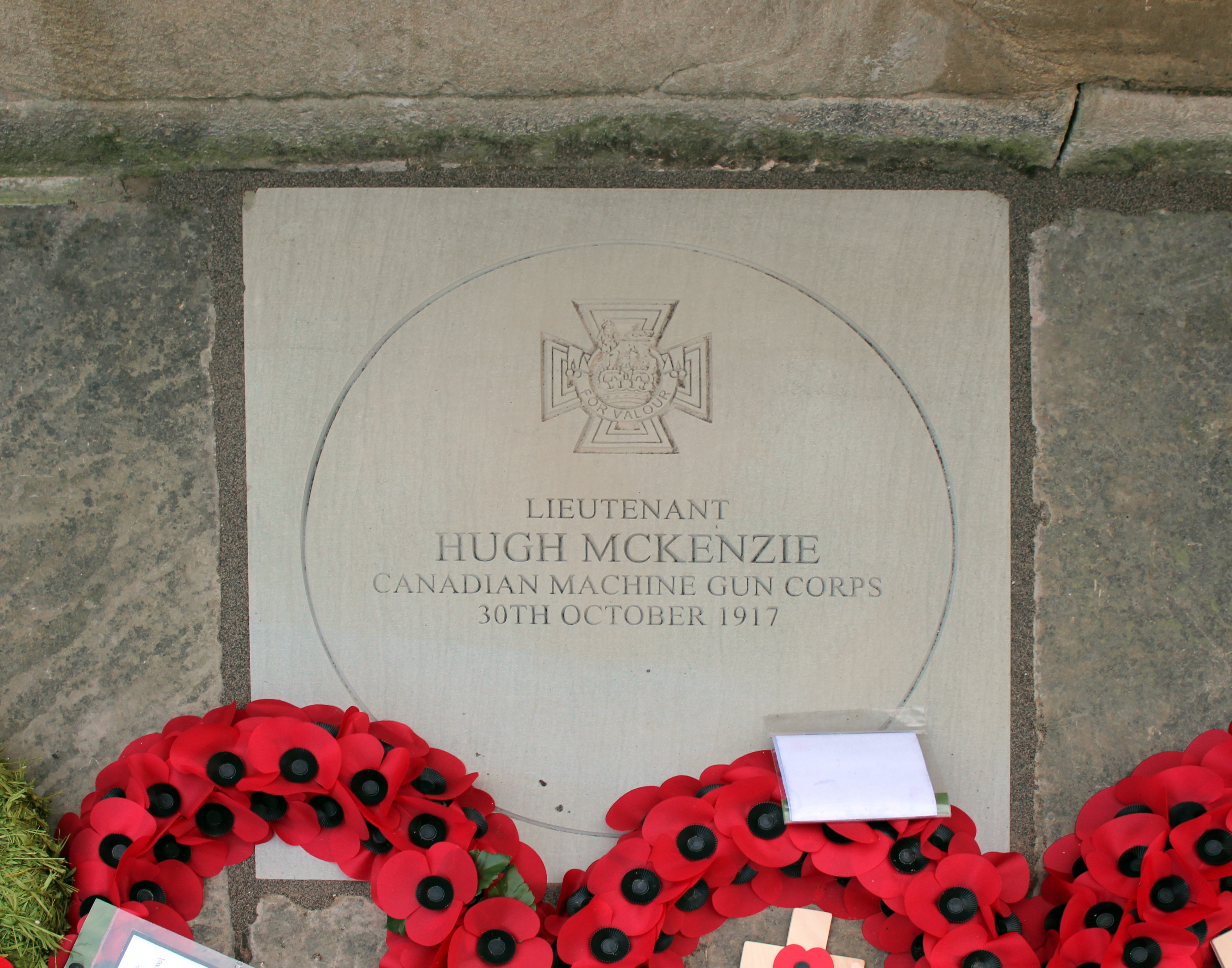 Memorial stone to Lt Hugh McDonald McKenzie, VC, DCM. Born Liverpool 1885, died October 1917 near Passchendaele.